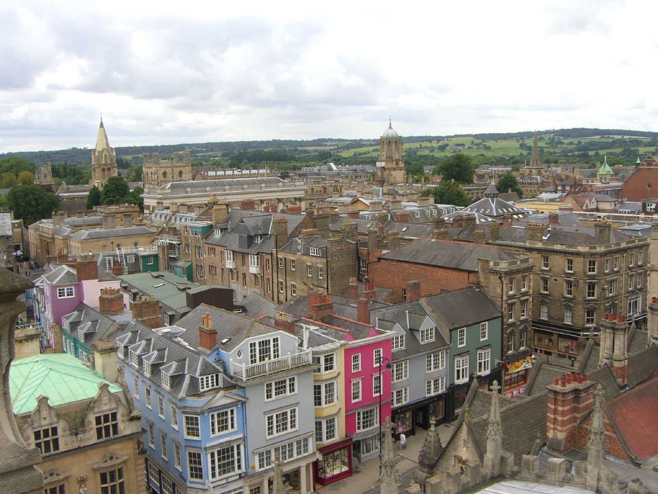 View over Oxford rooftops (from University Church?). Brightly painted shopfronts on High Street. Spire of cathedral and Tom Tower of Christ Church behind.